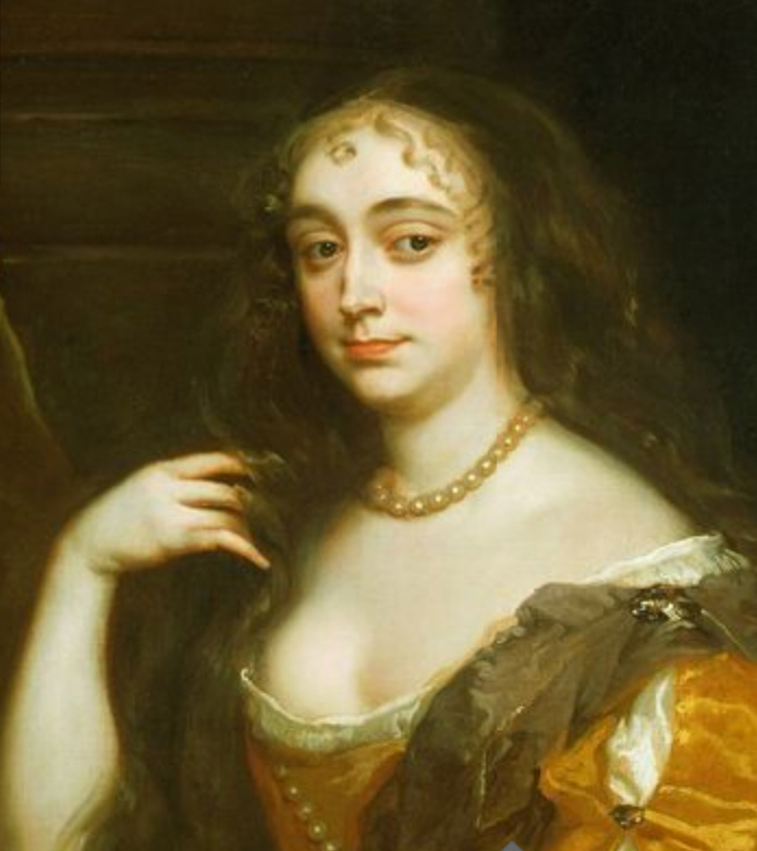 Portrait of Anne Hyde, Duchess of York (1637-1671) (detail)